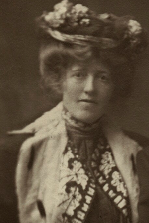 Laura Theresa (née Epps), Lady Alma-Tadema; Sir Lawrence Alma-Tadema by Lena Connell British suffragette photographer died 1949